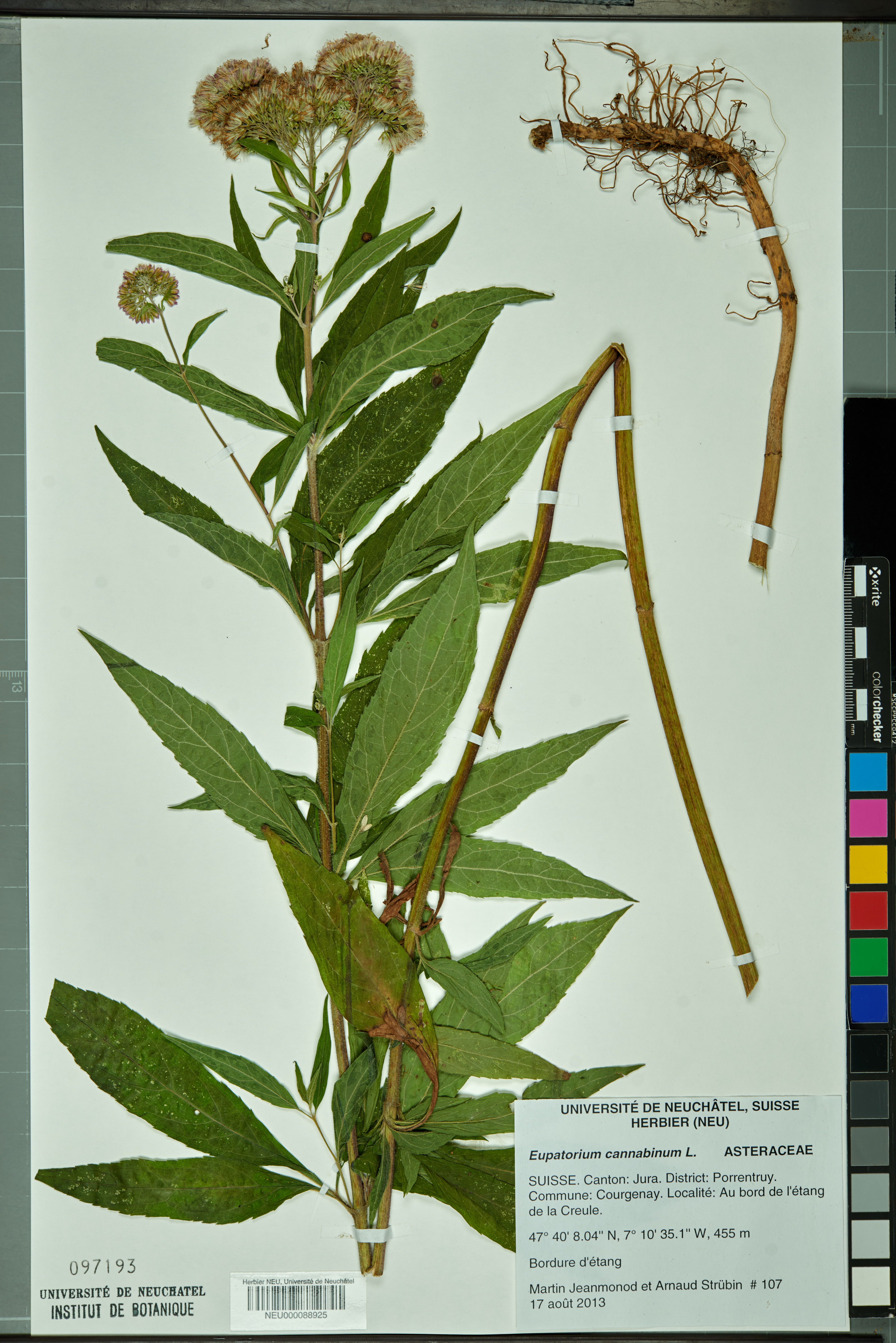 Dried pressed specimen of Eupatorium cannabinum